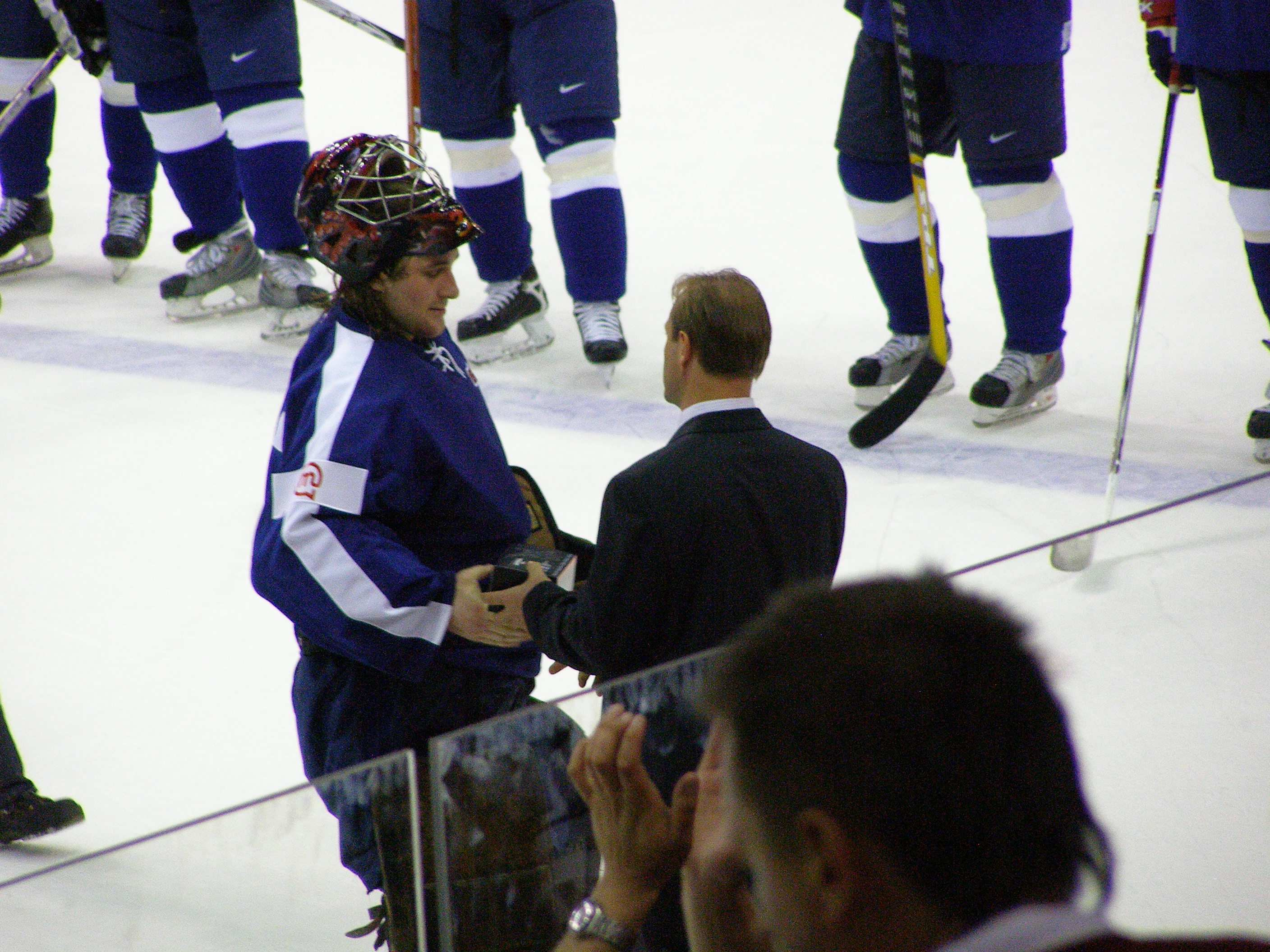 Latvia VS Slovenia (IIHF World Hockey Championship in Halifax NS, May 6 2008)